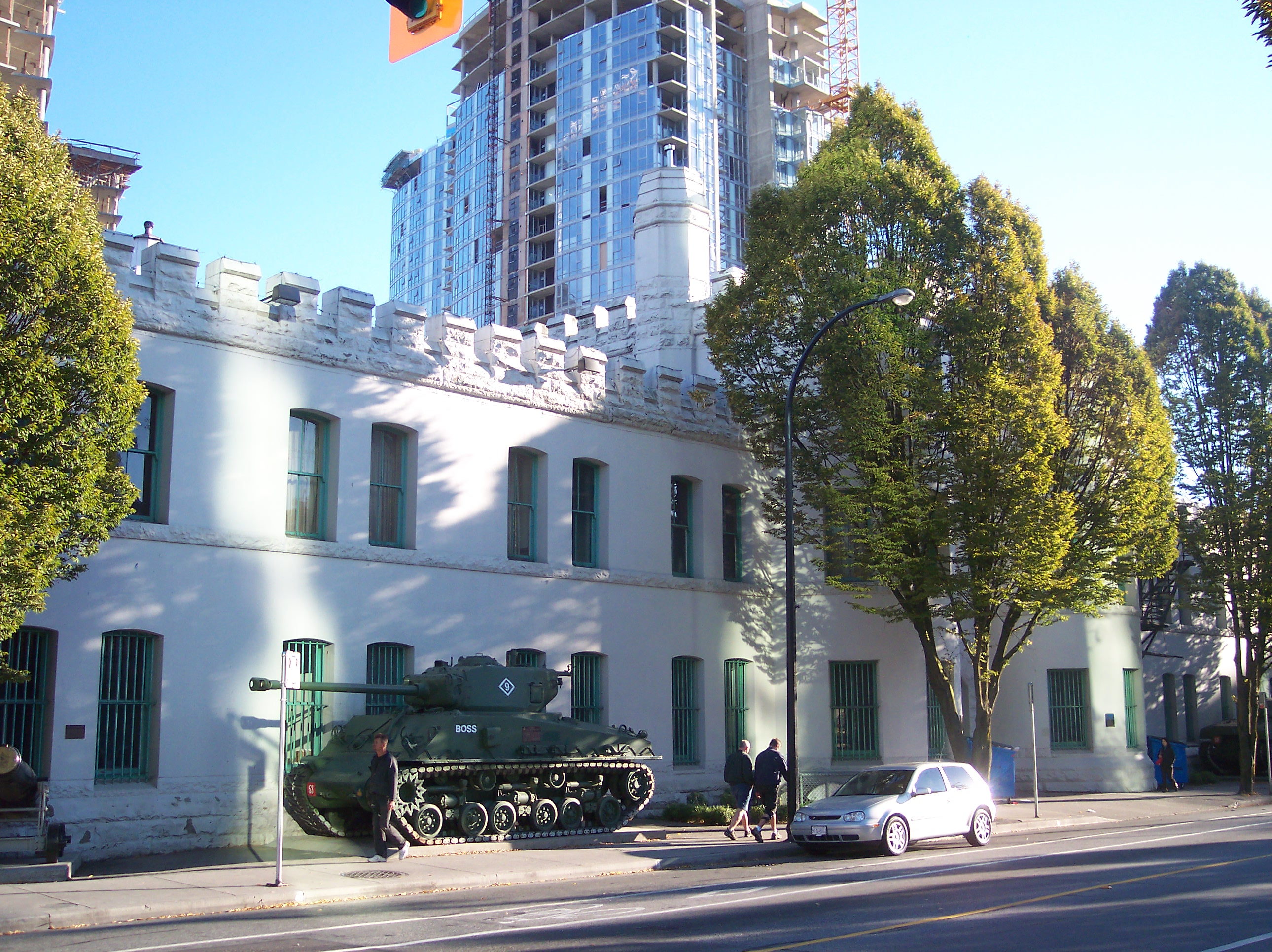 Beatty Street Drill Hall, Vancouver, BC, Canada